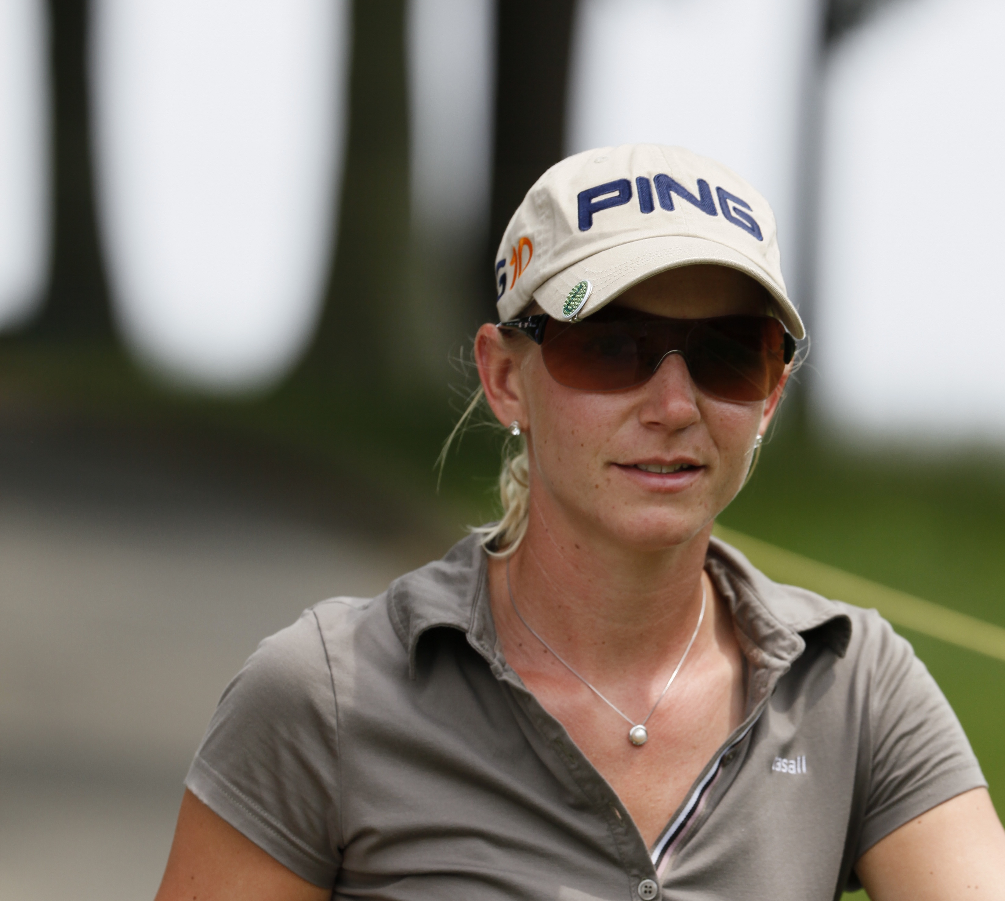 HAVRE DE GRACE, MD - JUNE 10: Louise Friberg (SWE) during practice round before 2009 LPGA Championship held at Bulle Rock Golf Course, on June 10, 2009 in Havre de Grace, Maryland. (Photo by Keith Allison)